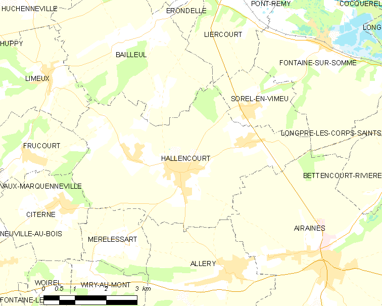 Map of French municipality Hallencourt